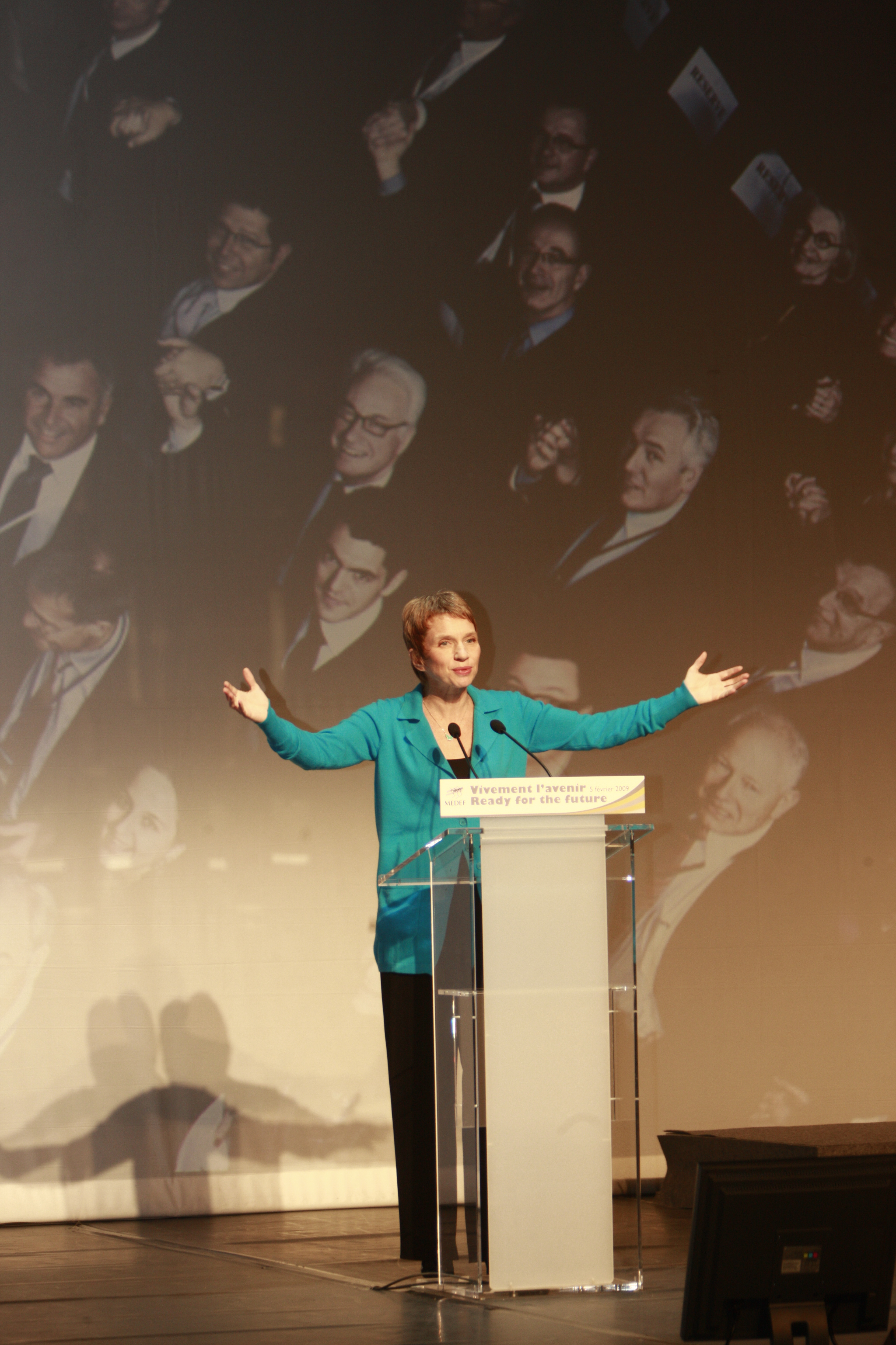 Laurence Parisot at the MEDEF's general assembly, held at the Mogador theater on Feb. 5th, 2009.